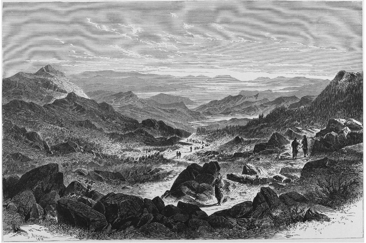 GUSTAV RASCH: "Scenery in Montenegro", The Aldine, Vol. 8, Nr. 2 (1876)